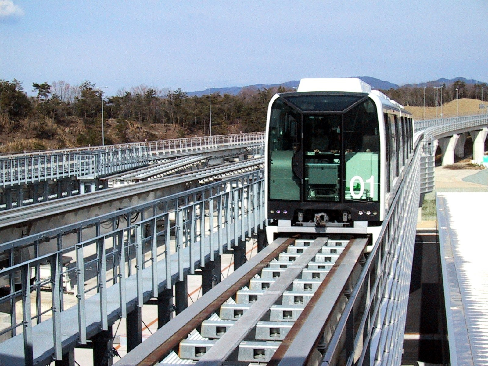 Linimo approaching Banpaku Kaijo Station, located at the main gate of Expo 2005, westbound towards Fujigaoka Station in Nagoya on the line's opening day. (The station was renamed Ai-Chikyuhaku Kinen Koen shortly after the Expo closed in September 2005.) Photo taken on the official opening day of the Linimo March 6 2005